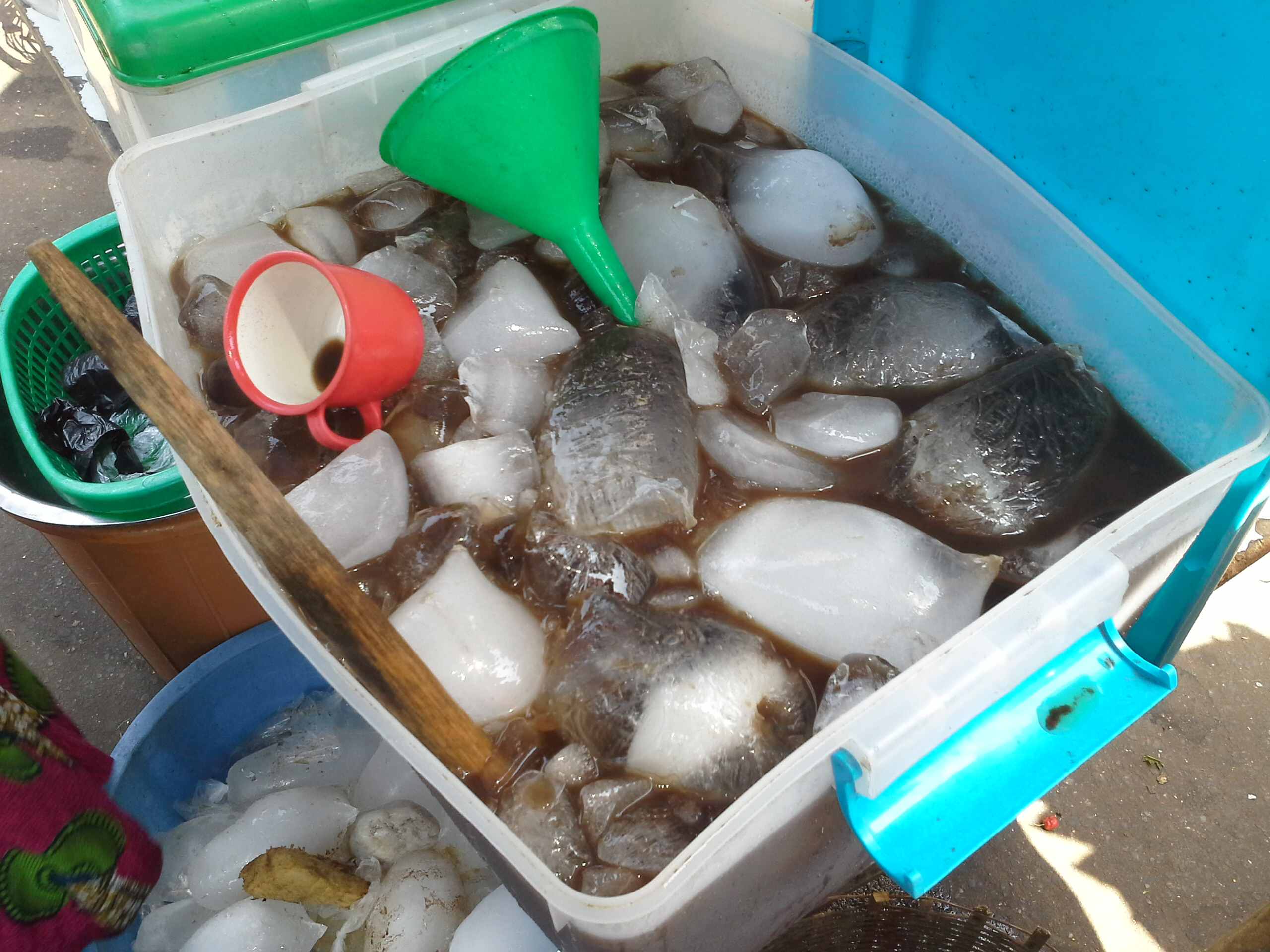 A popular Ghanaian drink This is an image of food from Ghana